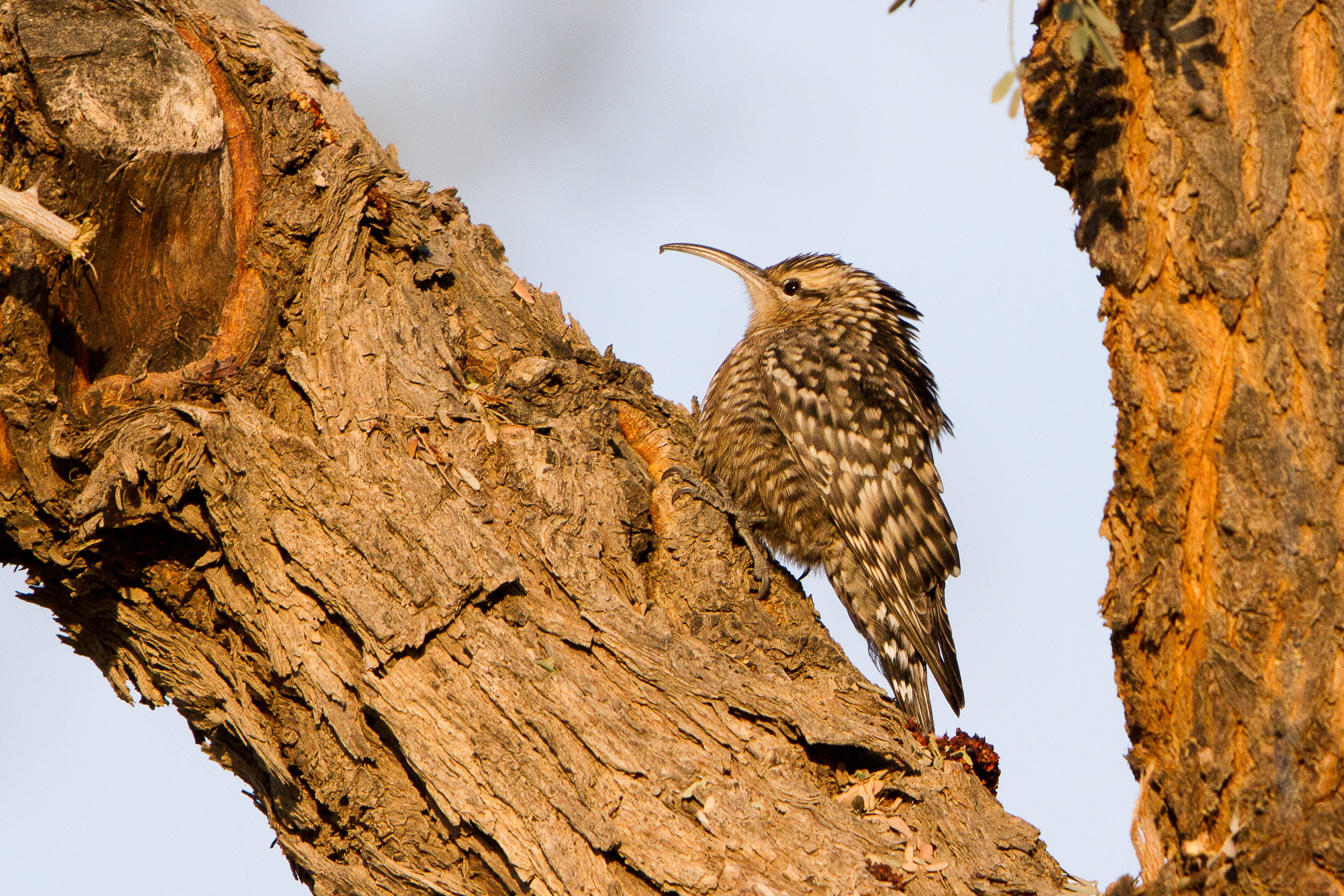 Indian Spotted Creeper basking in golden light early morning at Tal Chappar on 27th Dec 2015 GMT-02:57:31